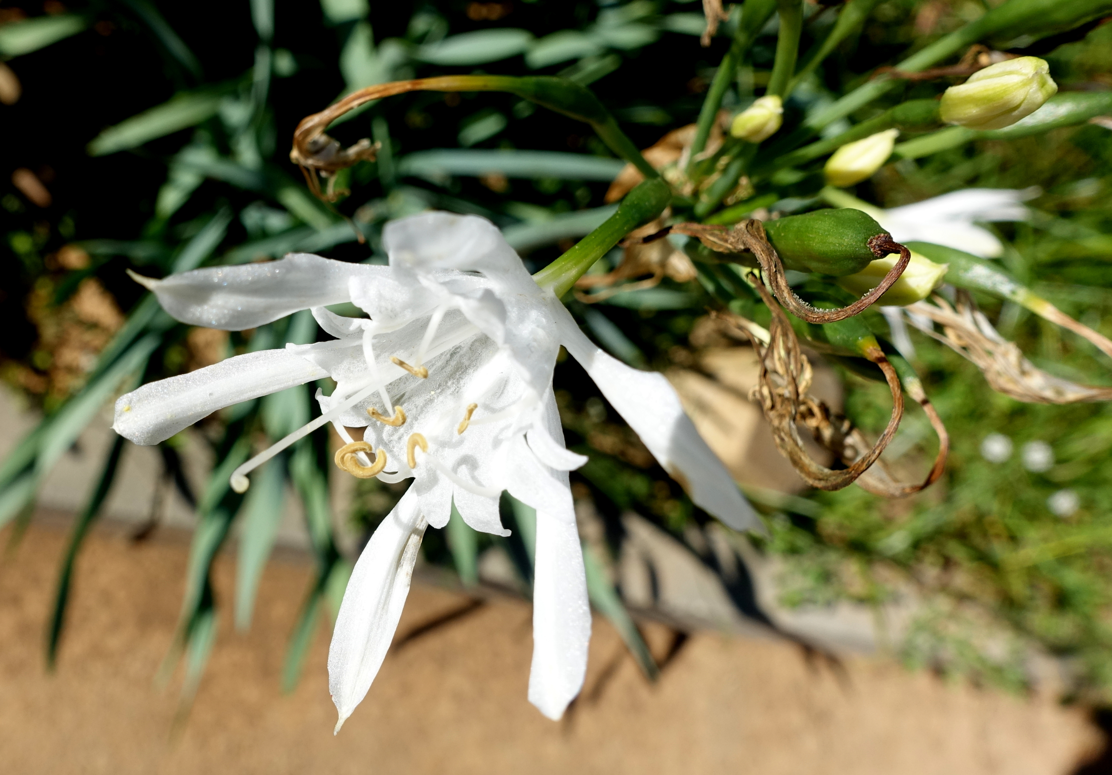 Botanical specimen in the Jardín Botánico de Barcelona - Barcelona, Spain.